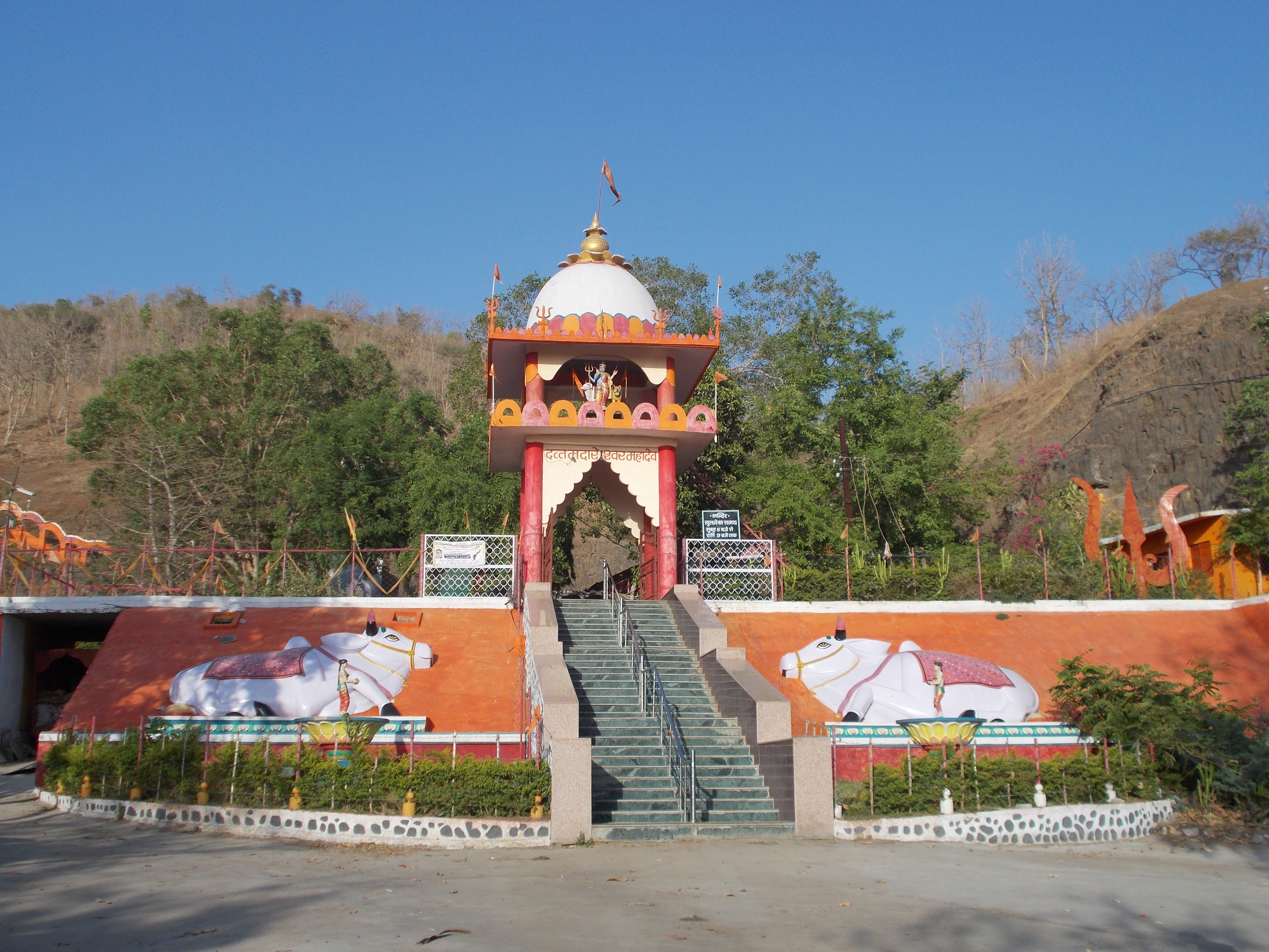 madareshwar shiv temple in banswara beautiful cave temple